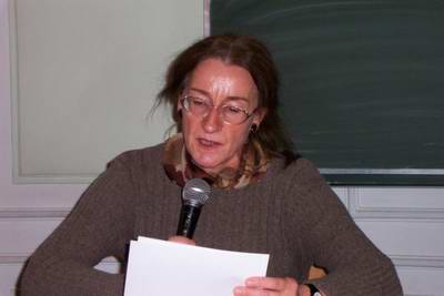 Halina Walentowicz - Polish philosopher, the greatest Polish expert on Max Horkheimer's philosophy